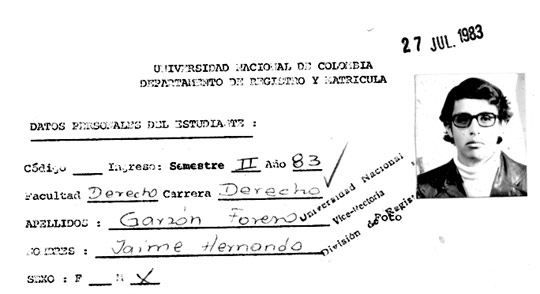 Student identification in 1983 of Jaime Garzón as Law student in Universidad Nacional de Colombia. Jaime Garzón was an intelectual and humorist with great influence and in 1999 was murdered for politics reasons.